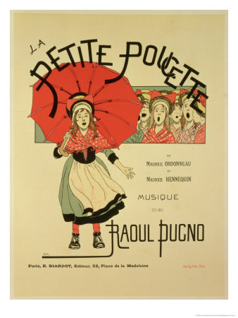 Affiche La Petite Poucette